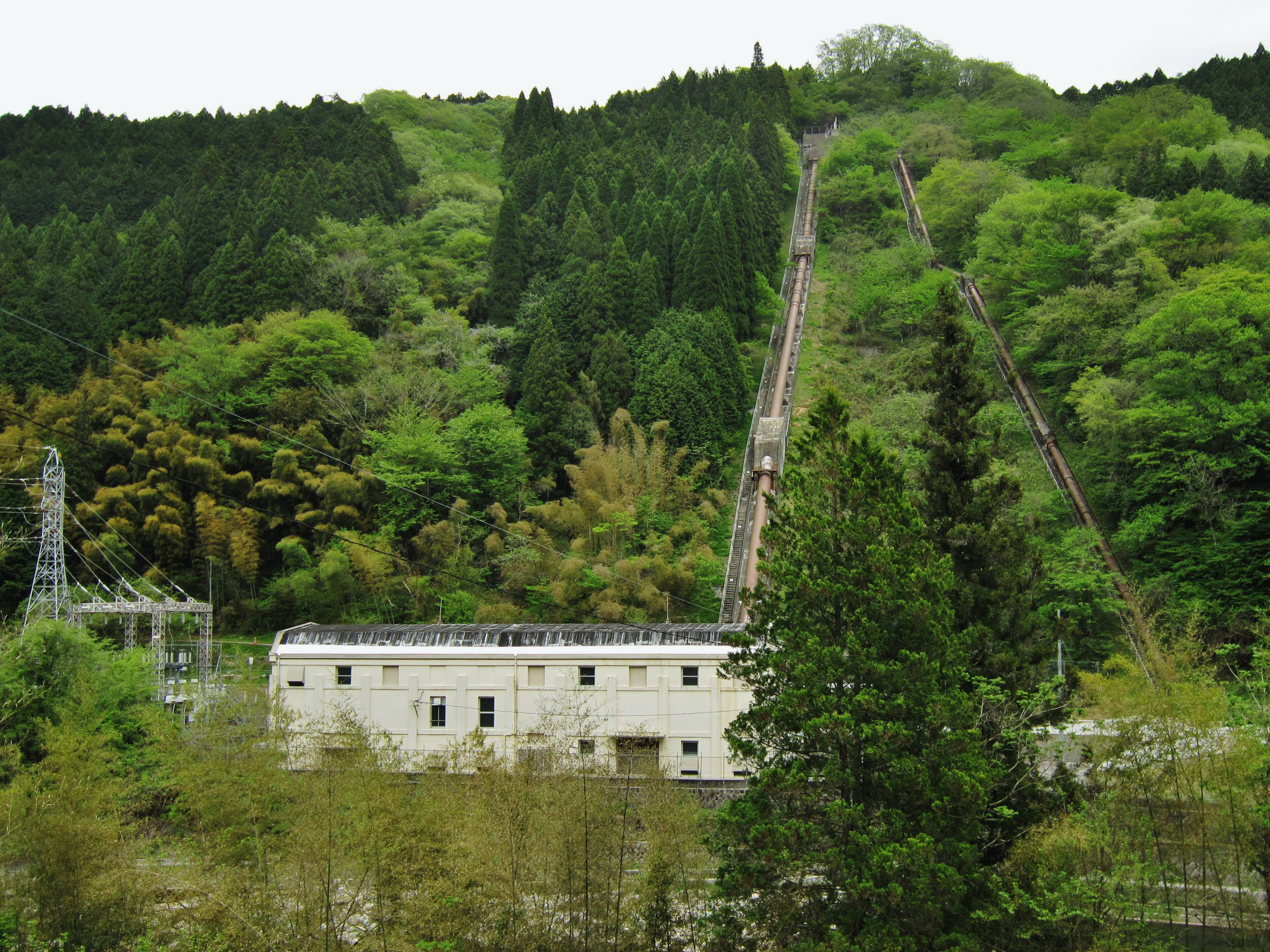 Oshiyama power station.